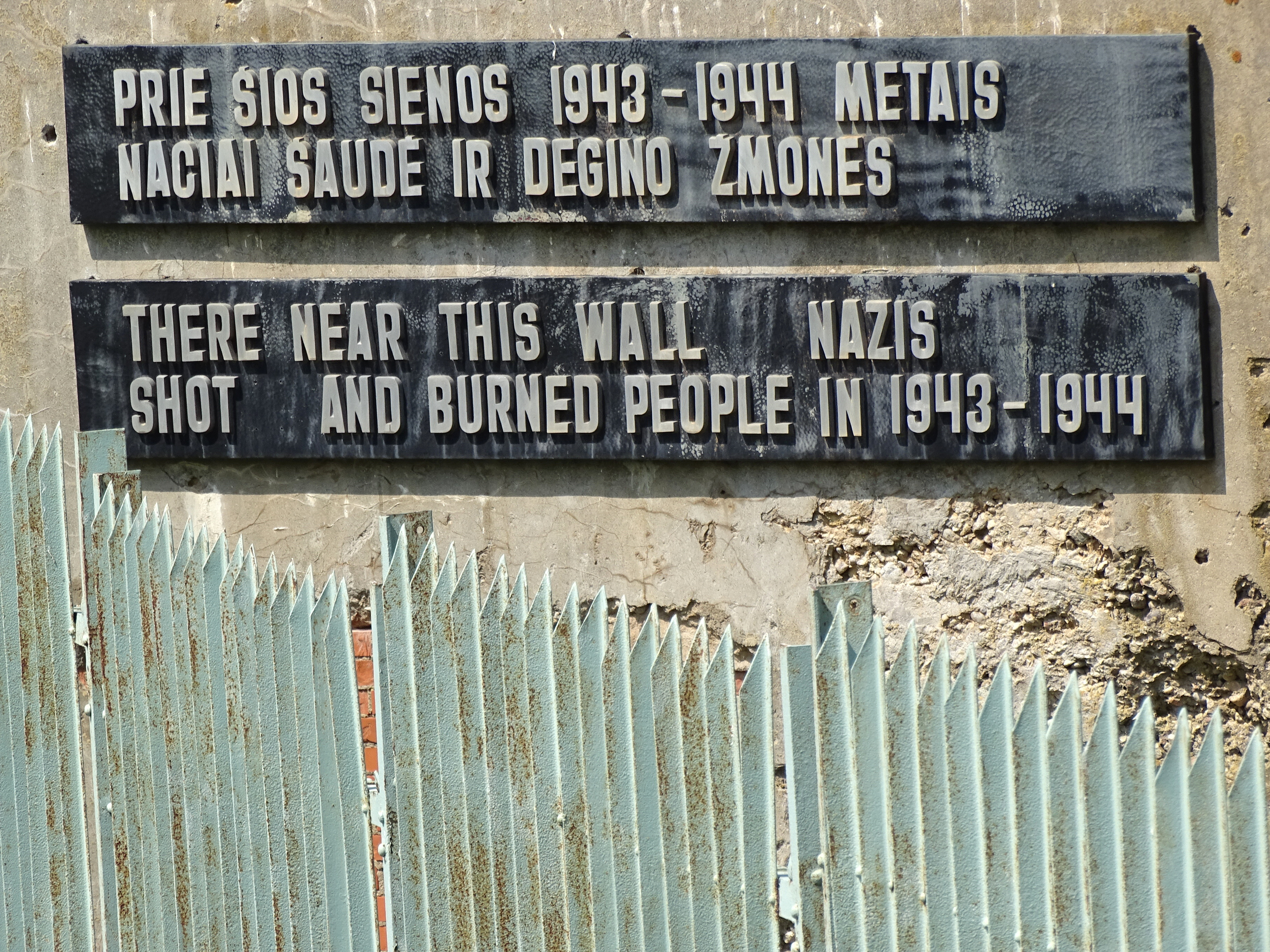 Sign on Fort Wall - Ninth Fort - Nazi Genocide Site - Kaunas - Lithuania